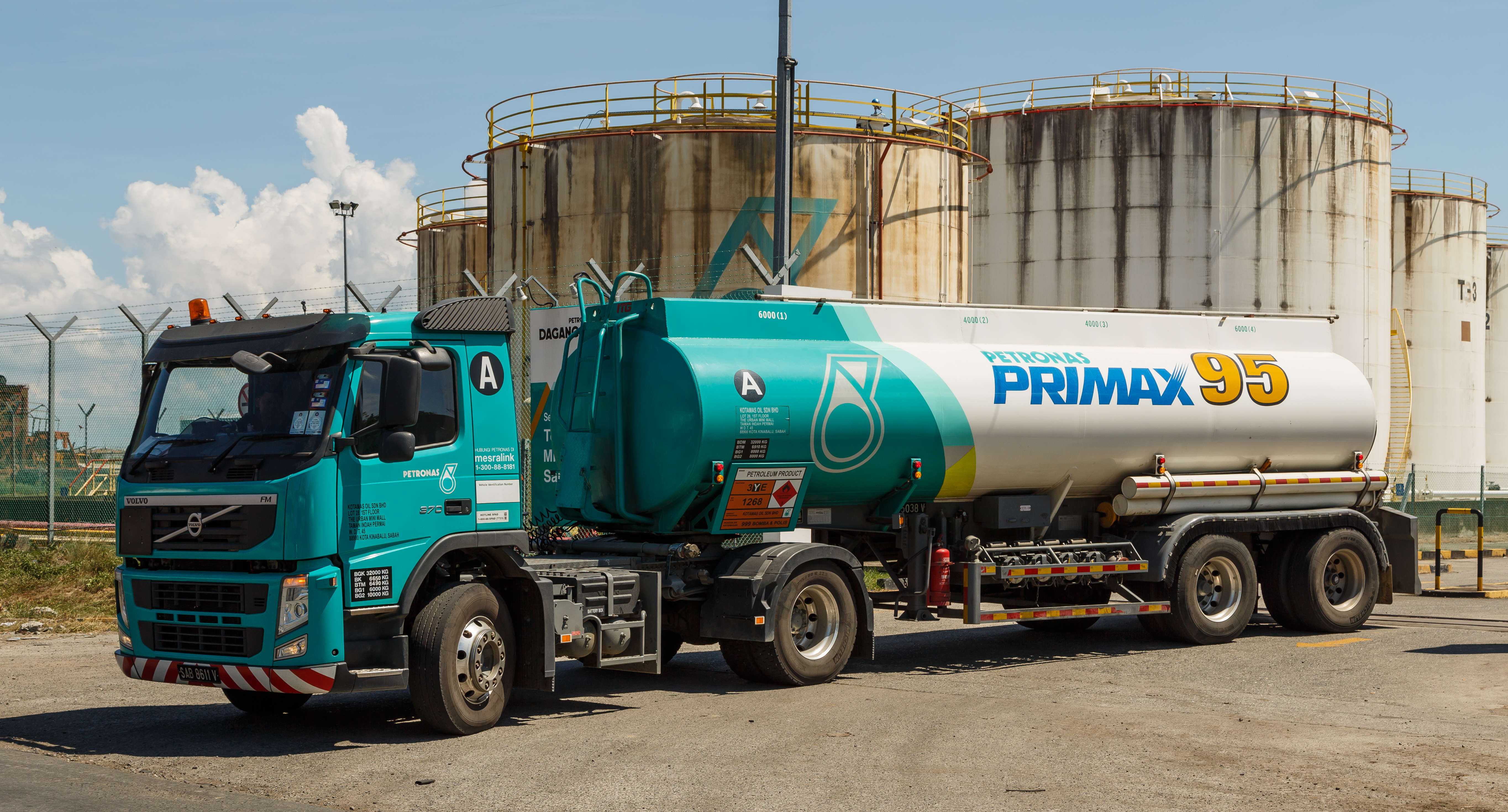 Sandakan, Sabah: A tank truck leaving Petronas Oil Terminal at Sandakan Port